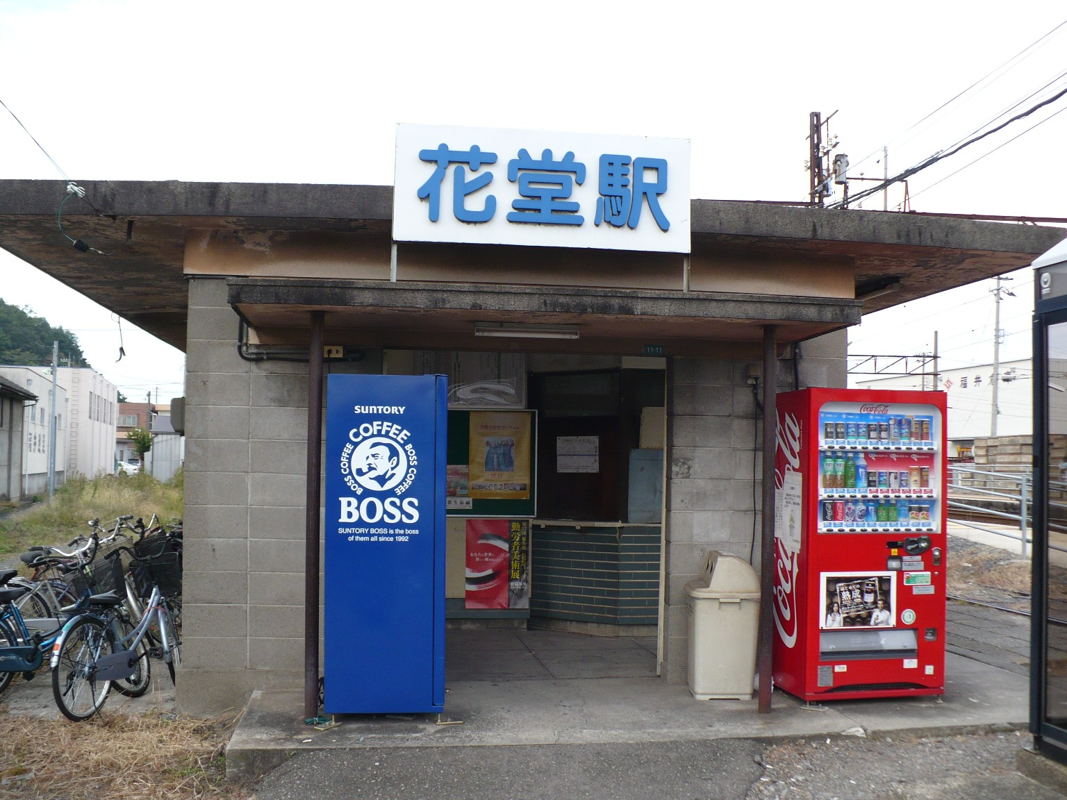 Frontview of the main building at Fukui railway Hanandou station, Fukui city Fukui prefecture Japan.